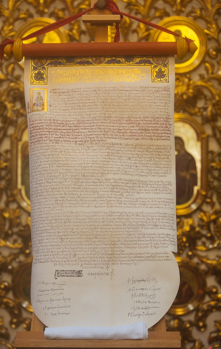 Patriarchal and Synodal Tomos for the bestowal of the ecclesiastical status of autocephaly to the Orthodox Church in Ukraine